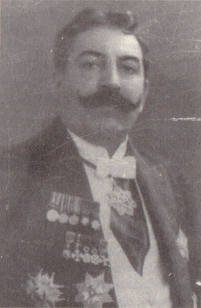 A picture of Ali Ahmad Khan Luynab, date unknown.